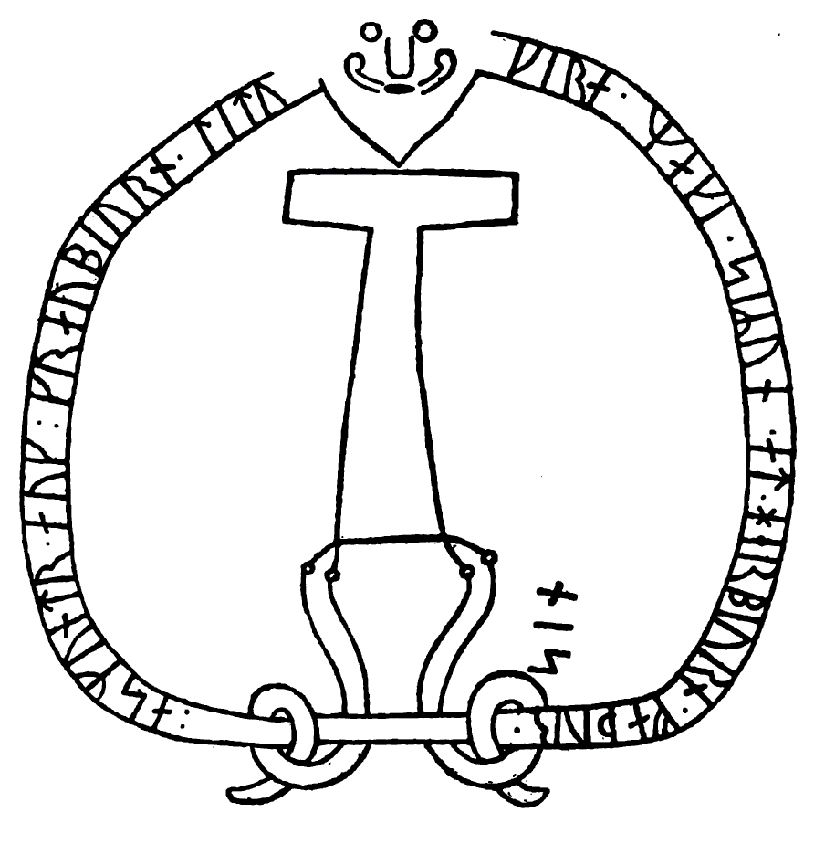 The runestone Sö 86 from S. Åby ägor. George Stephens lists this stone among those which bear the face of Thor. The inscription reads : asmuhtr : auk : fraybiurn * litu kera : meki * siRun * at * herbiurn * faþur : sin :. In English "Ásmundr and Freybjôrn had the rune-decorated landmark made in memory of Herbjôrn, their father."